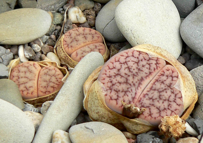 Photo of Lithops pseudotruncatella var. elisabethae at the University of California Botanical Garden